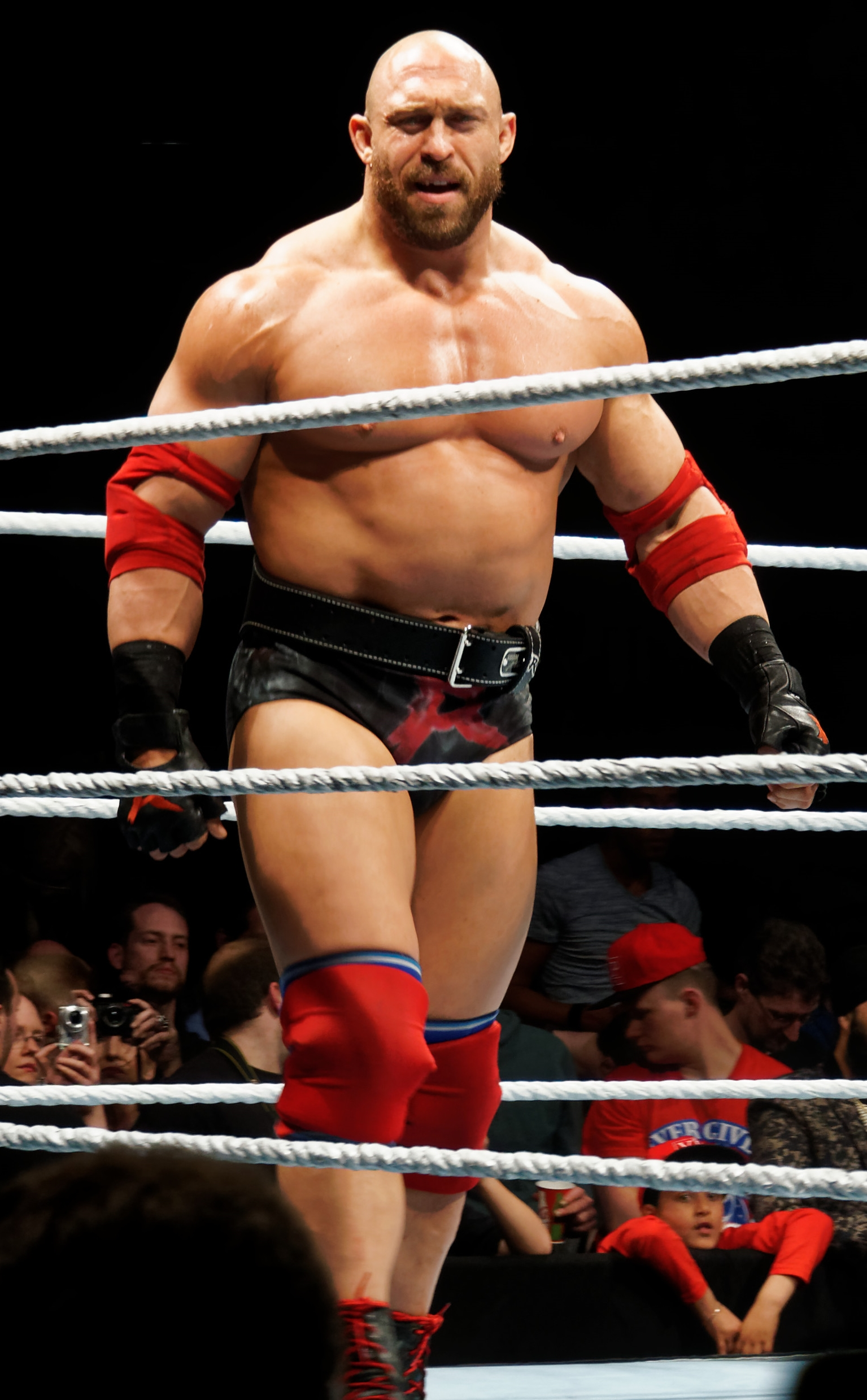 Ryback in April 2016